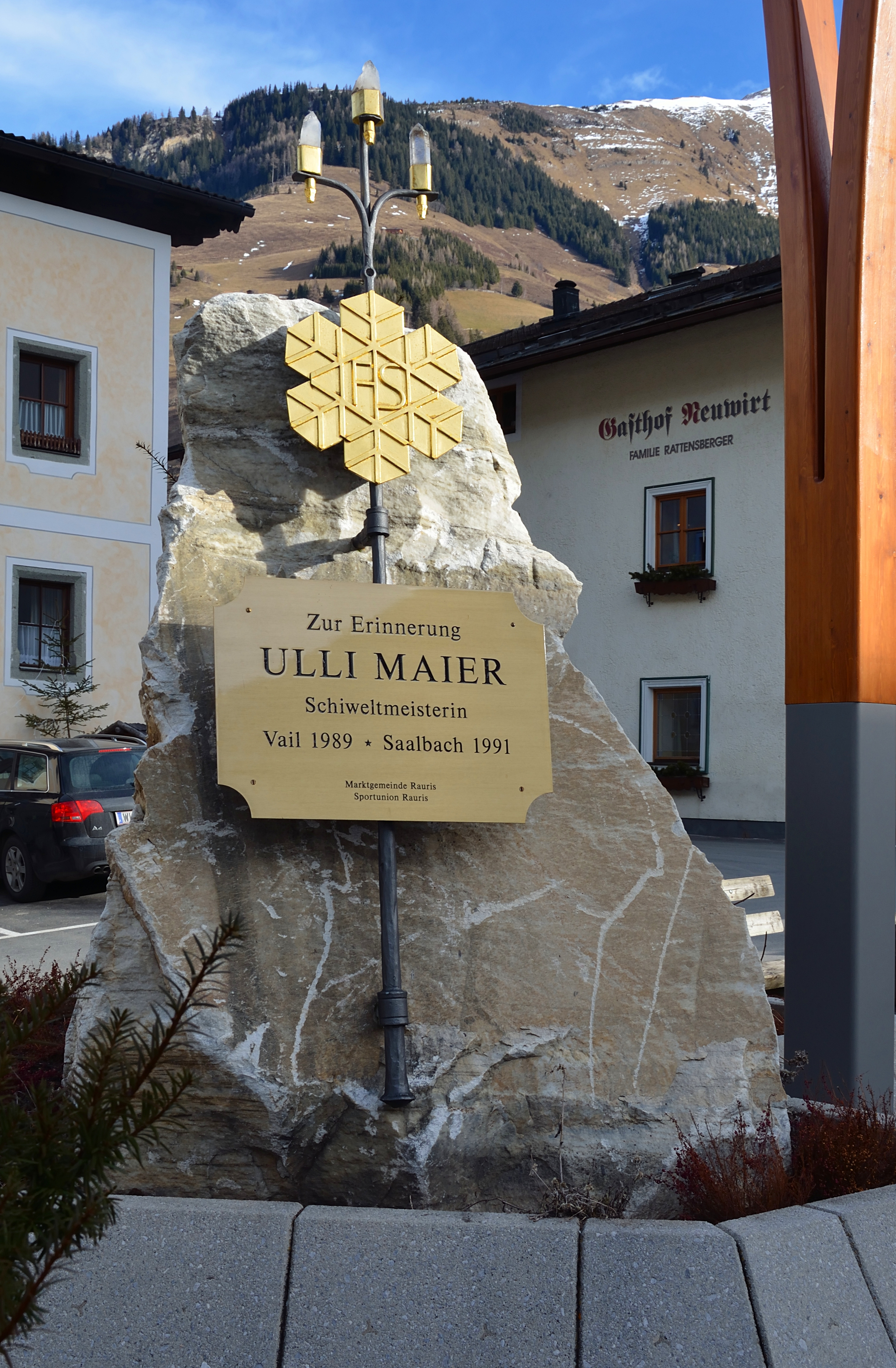 Ulli Maier memorial at Rauris